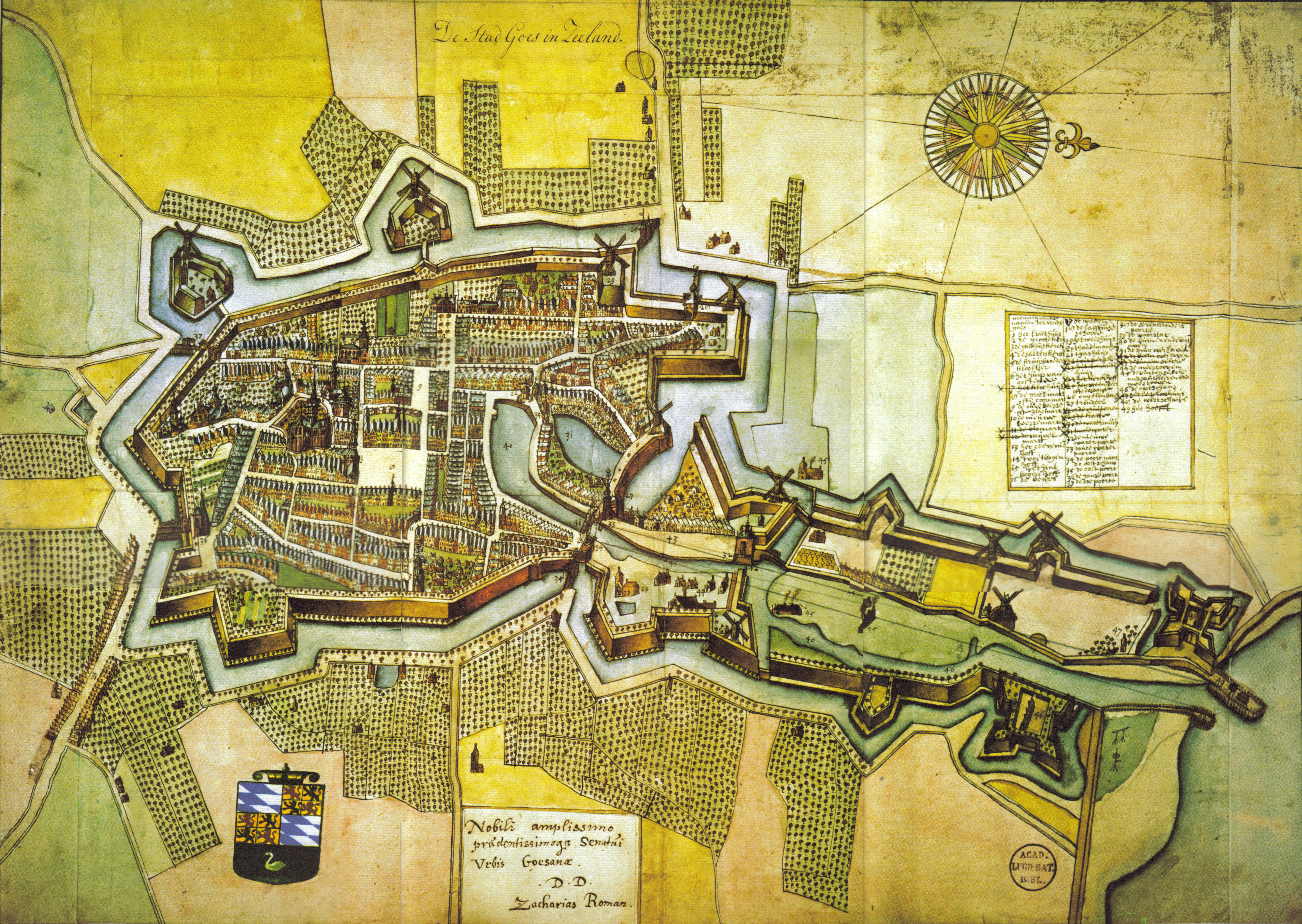 Public domain. This is handmade.